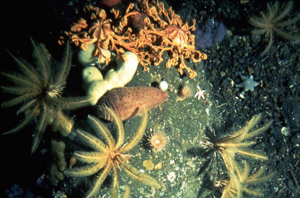 A bottom-dwelling community found in the European Arctic. Image courtesy of Arctic Exploration 2002, , v. Juterzenka, Piepenburg, Schmid, NOAA/OER.